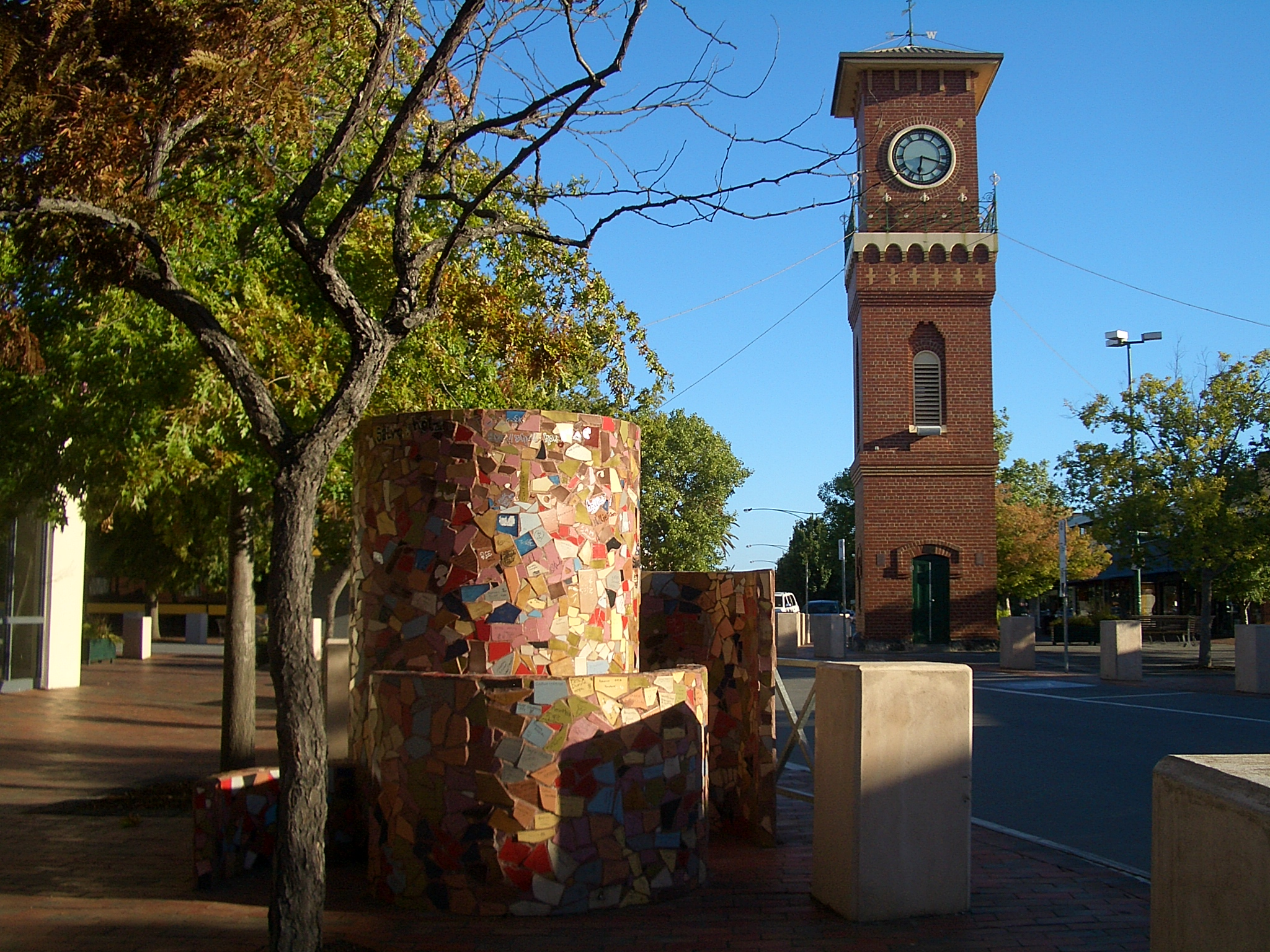 In the central section of Sale, Victoria